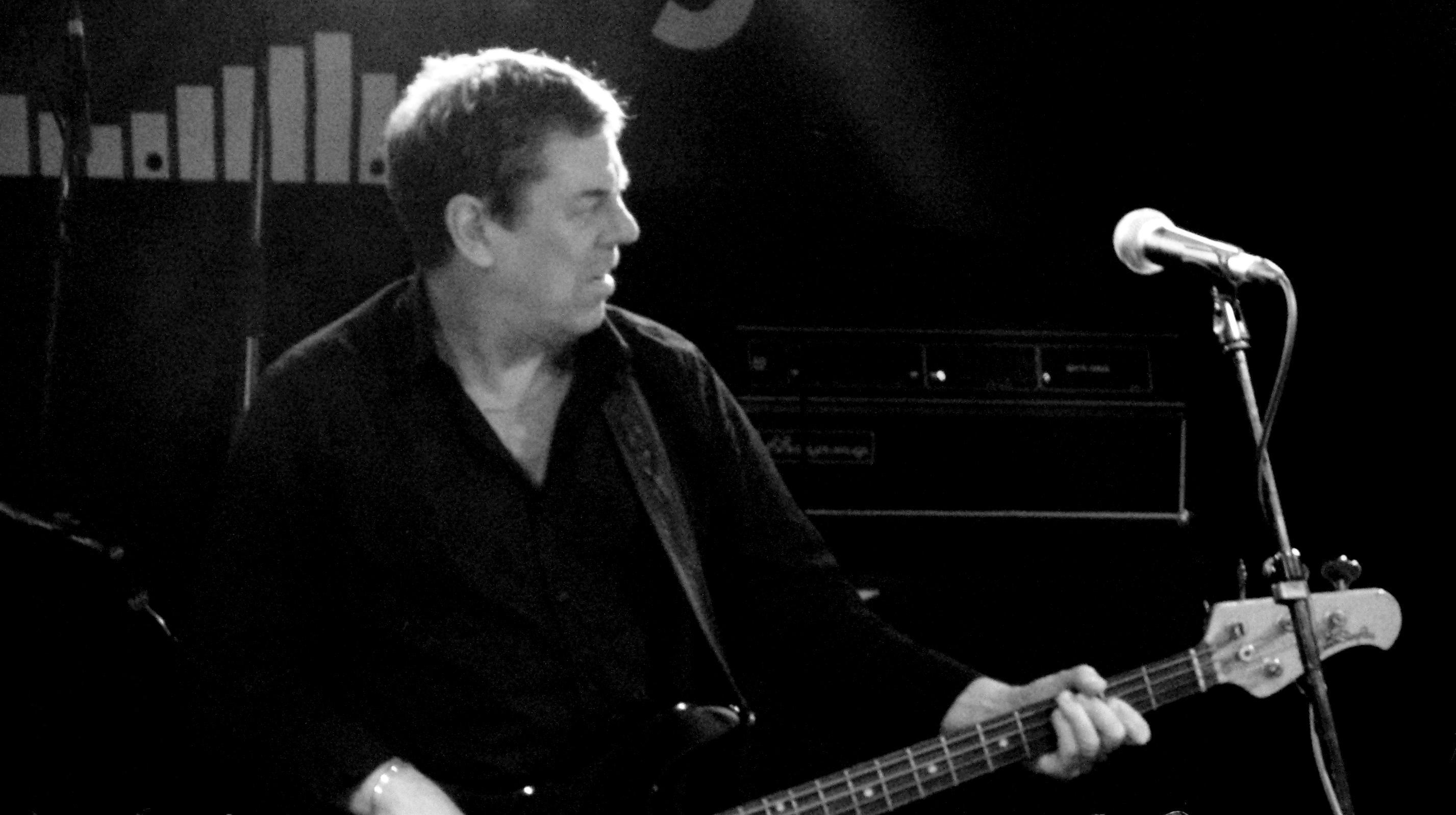 Gerry McAvoy; former bassist for Rory Gallagher, now here with Nine Below Zero